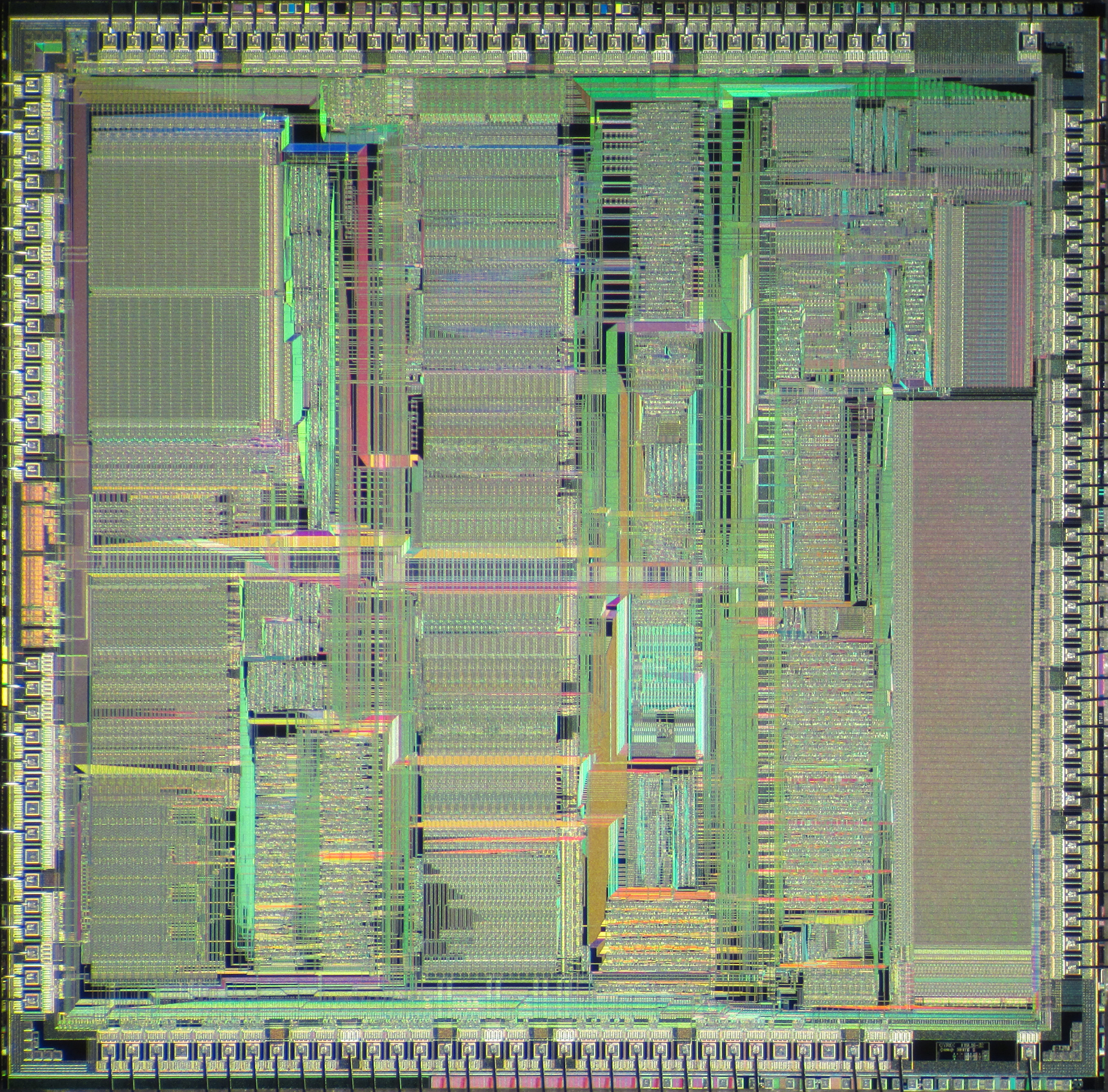 Die shot of Cyrix Cx486DLC-33GP microprocessor.